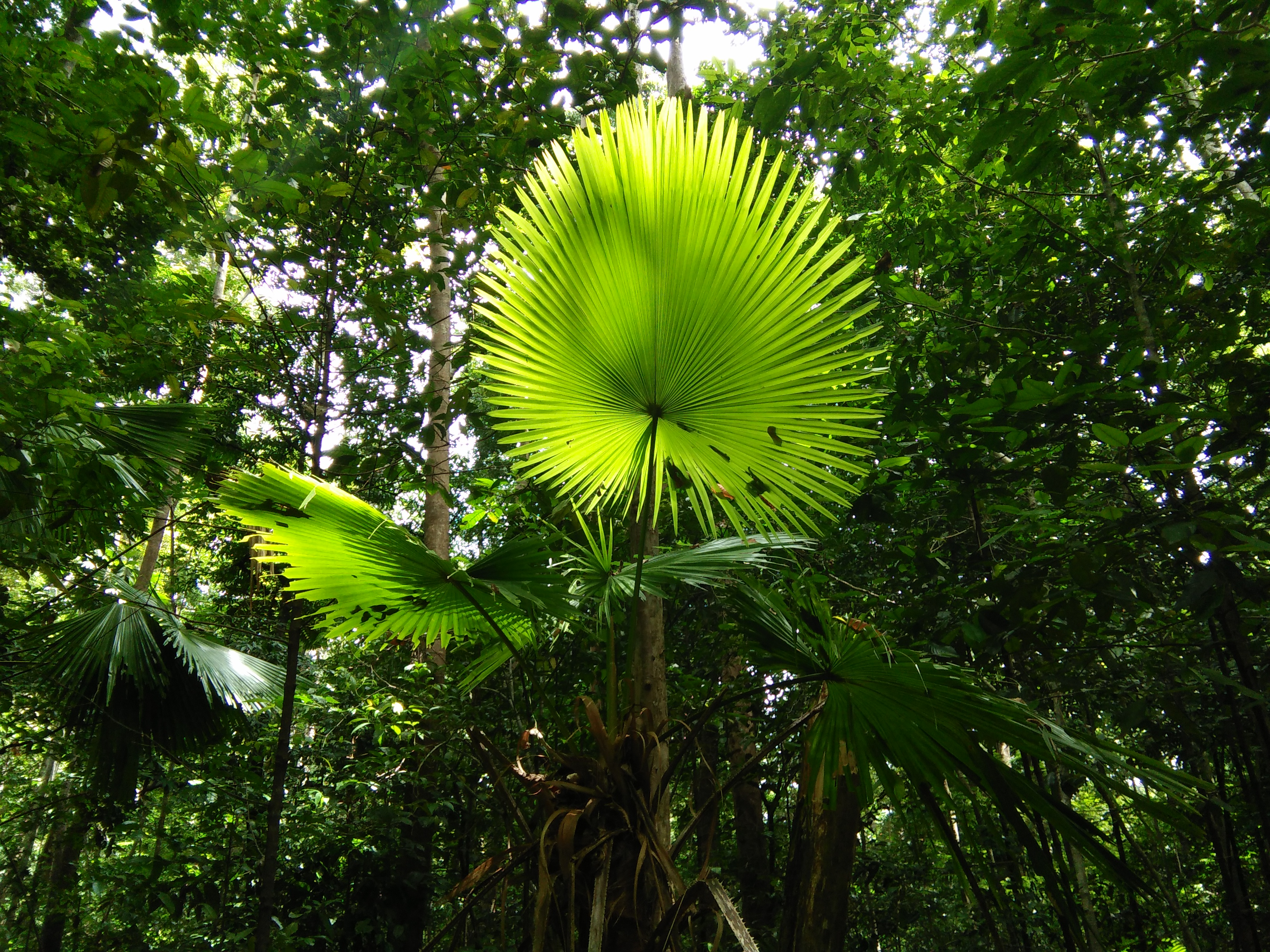 Livistona rotundifolia palm in the forest understorey in Tangkoko Nature Reserve, Sulawesi